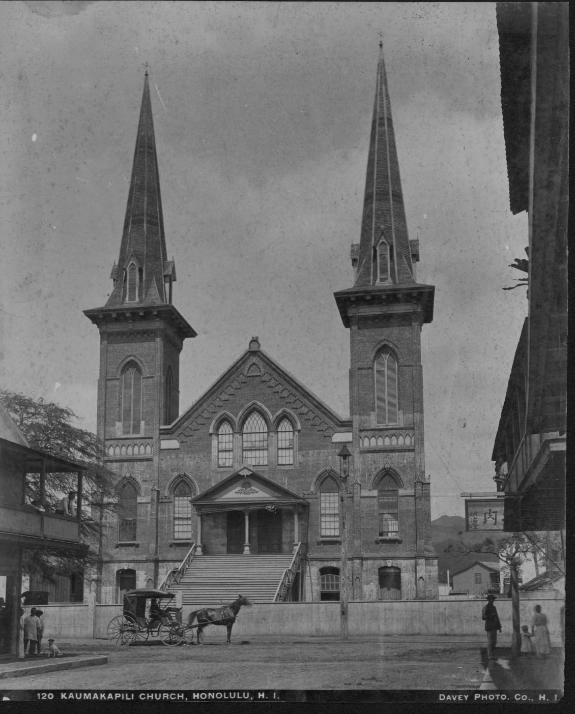 Kaumakapili Church, Honolulu, H. I. Photograph by Frank Davey.